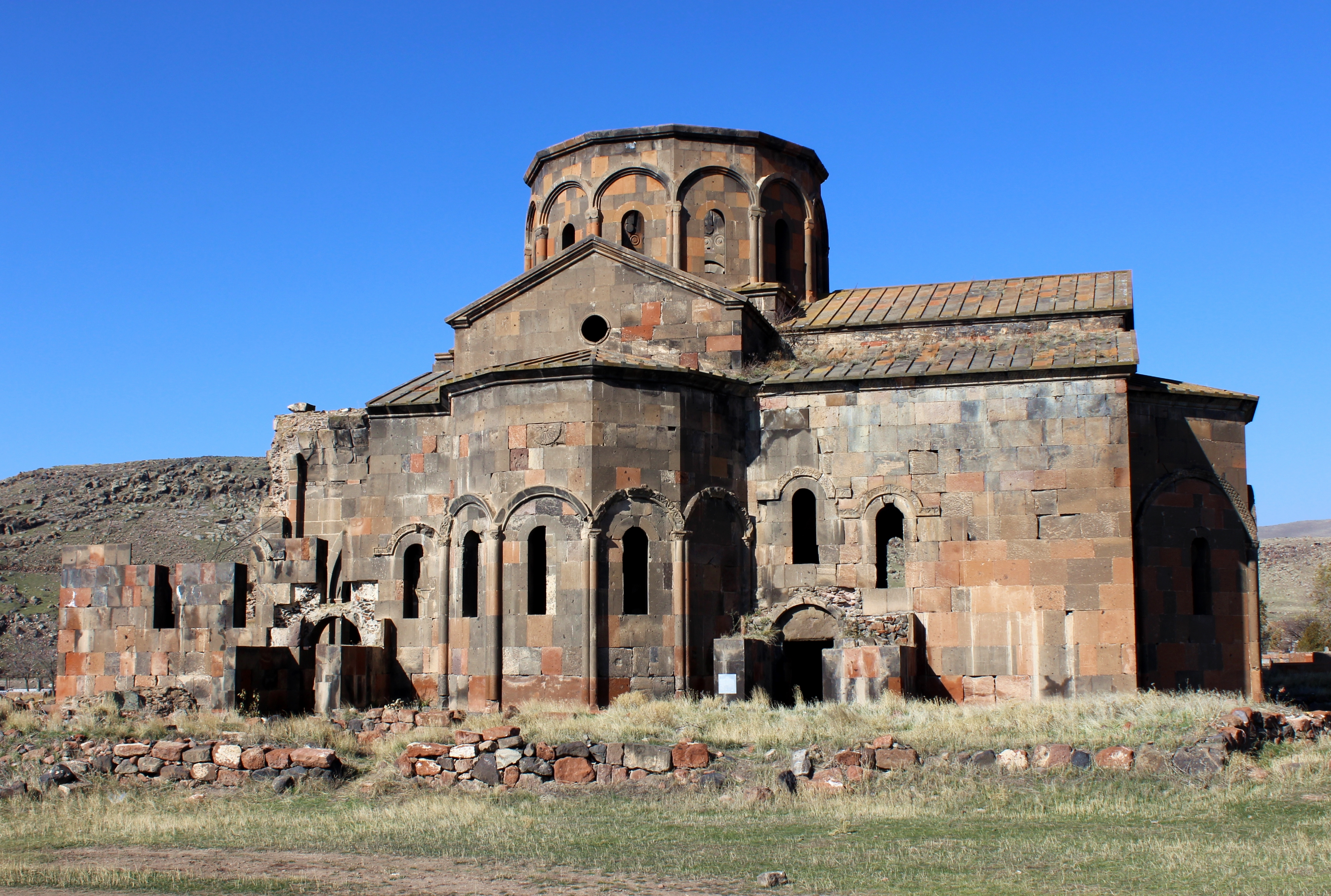 Katoghike Church (Talin Cathedral), late 7th c., Talin, Aragatsotn Province, Armenia.